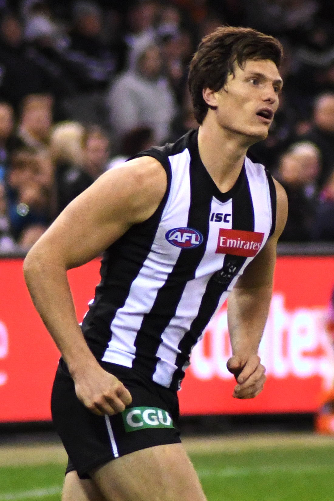 Brody Mihocek of Collingwood during the 2018 AFL round 21 match between Collingwood and Brisbane at Etihad Stadium on Saturday, 11 August 2018 in Melbourne, Victoria.